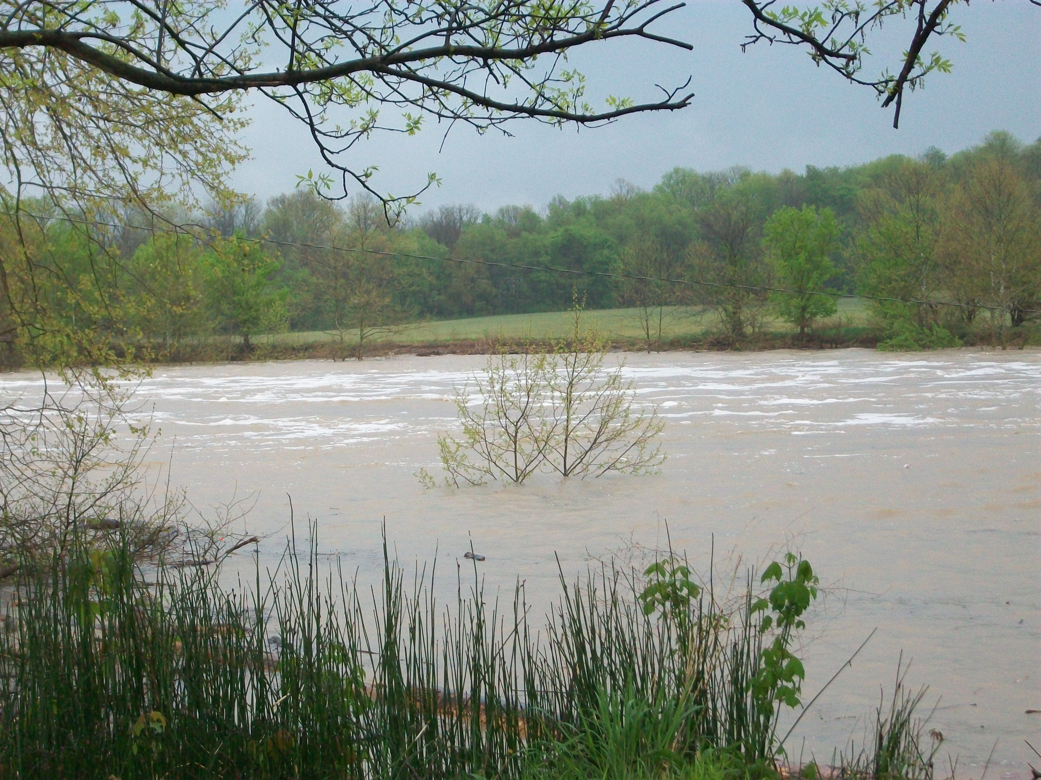 A tree underwater in Williams, Ind. at the East Fork of the White River. This is located just downstream of Williams Dam.